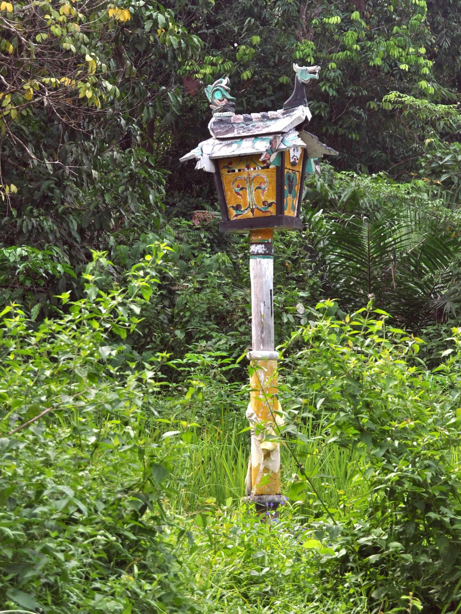 Sandung, a traditional bonehouse of Dayak tribe. From Ketapang, West Kalimantan, Indonesia.